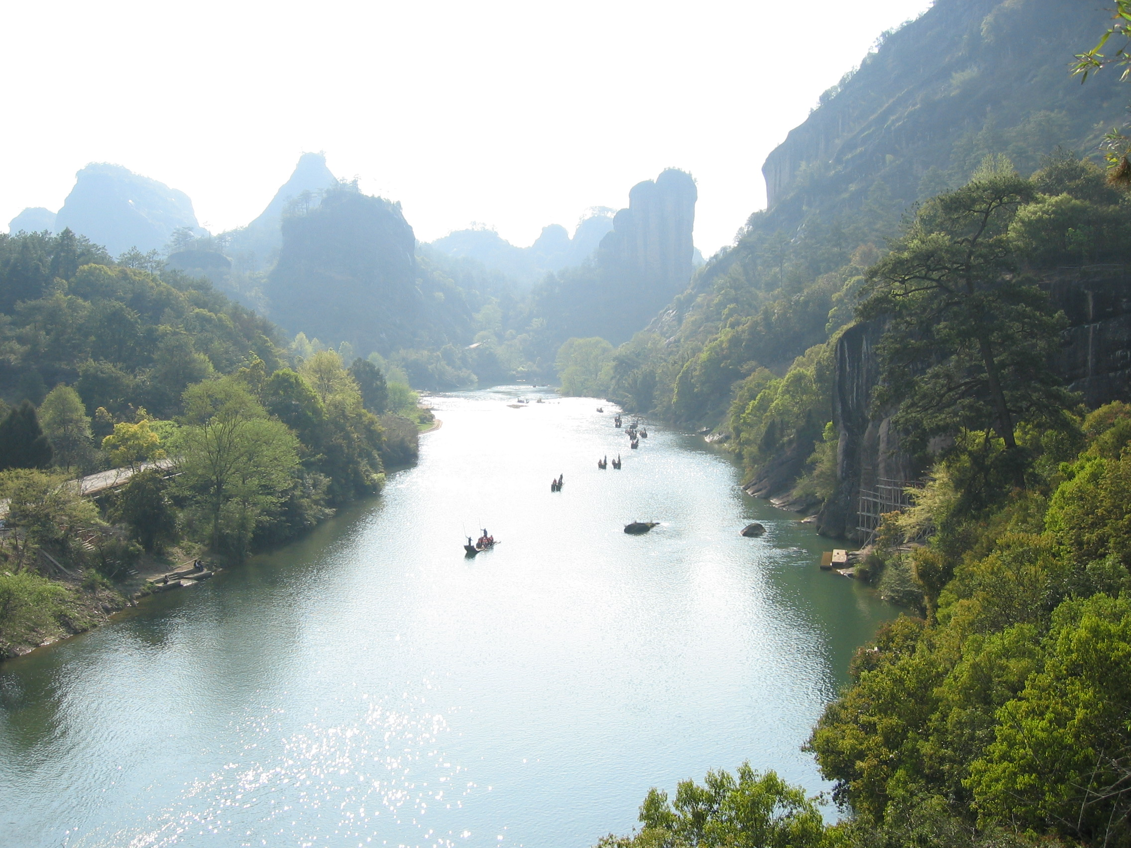 Punting on the River of Nine Bends, Wuyishan, Fujian Province, China.